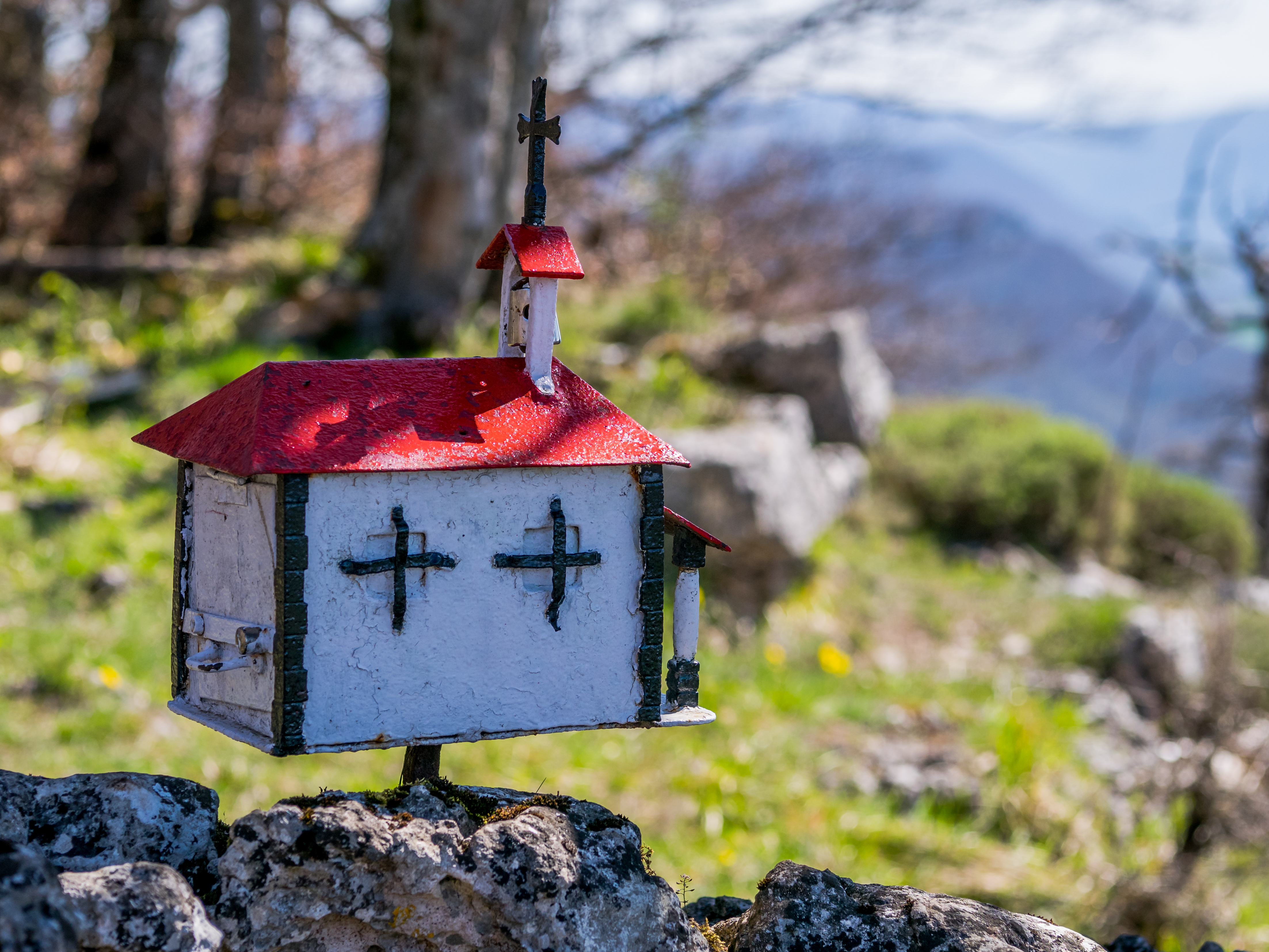 Mountaineer's mailbox at the summit of Murube in the Entzia mountain range. Álava, Basque Country, Spain